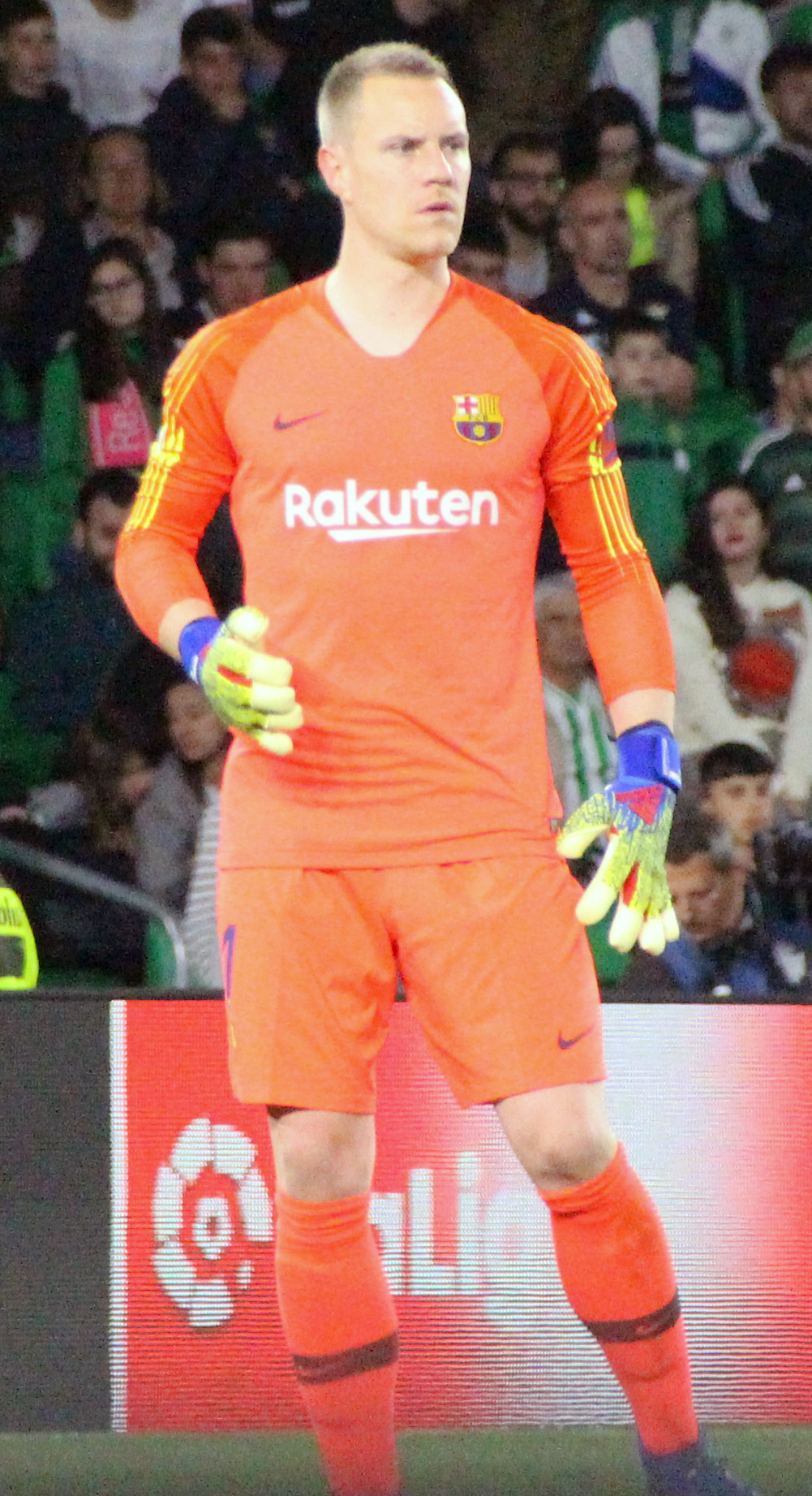 Marc Andre Ter Stegen playing for FC Barcelona vs Real Betis, 17/03/2019